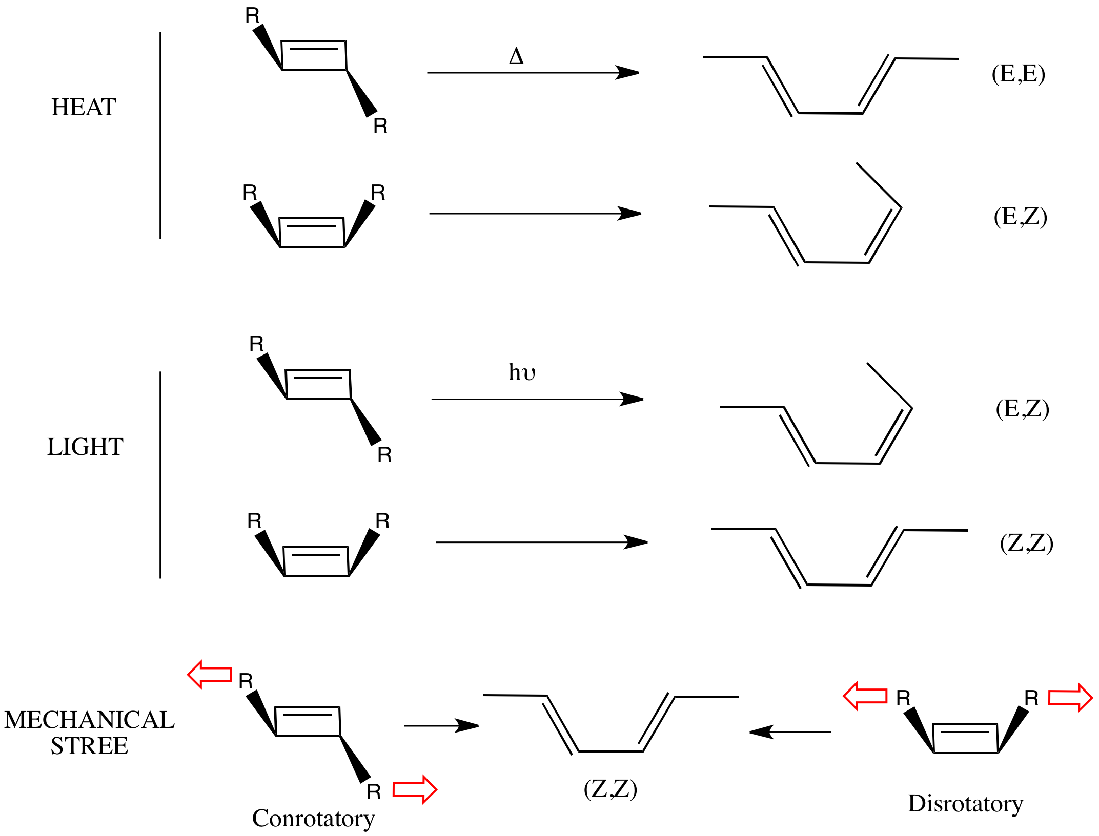 The 4 electron electrocyclic ring opening reaction can be influenced by mechanical stress, from Hickenboth (2007).